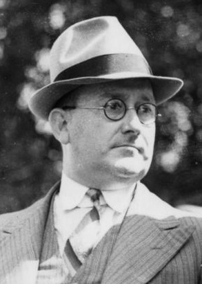 Vincent Clair Gair, Premier of Queensland, December 1938